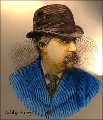 English actor Joseph Ashy-Sterry ca. 1880